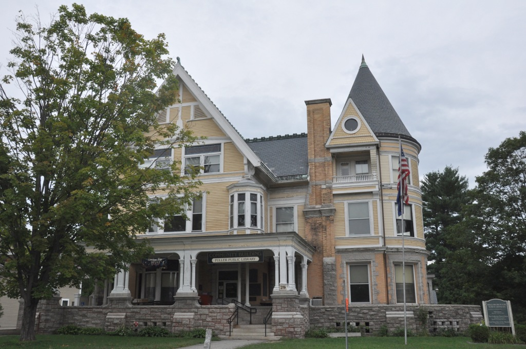 Gov. John Butler Smith House in Hillsborough, New Hampshire. The building houses the Hillsborough public library and the town offices.